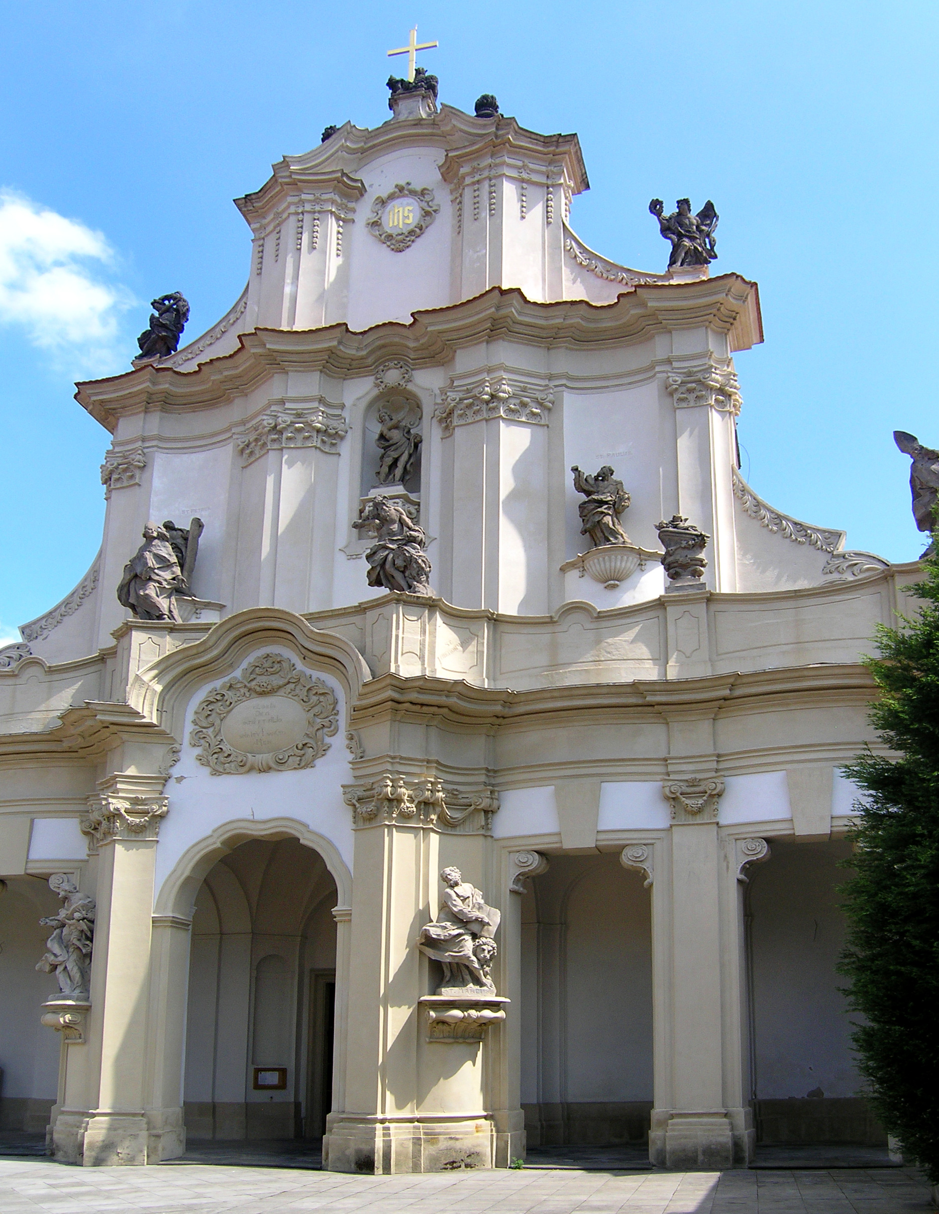 Church in Osek town, Czech Republic